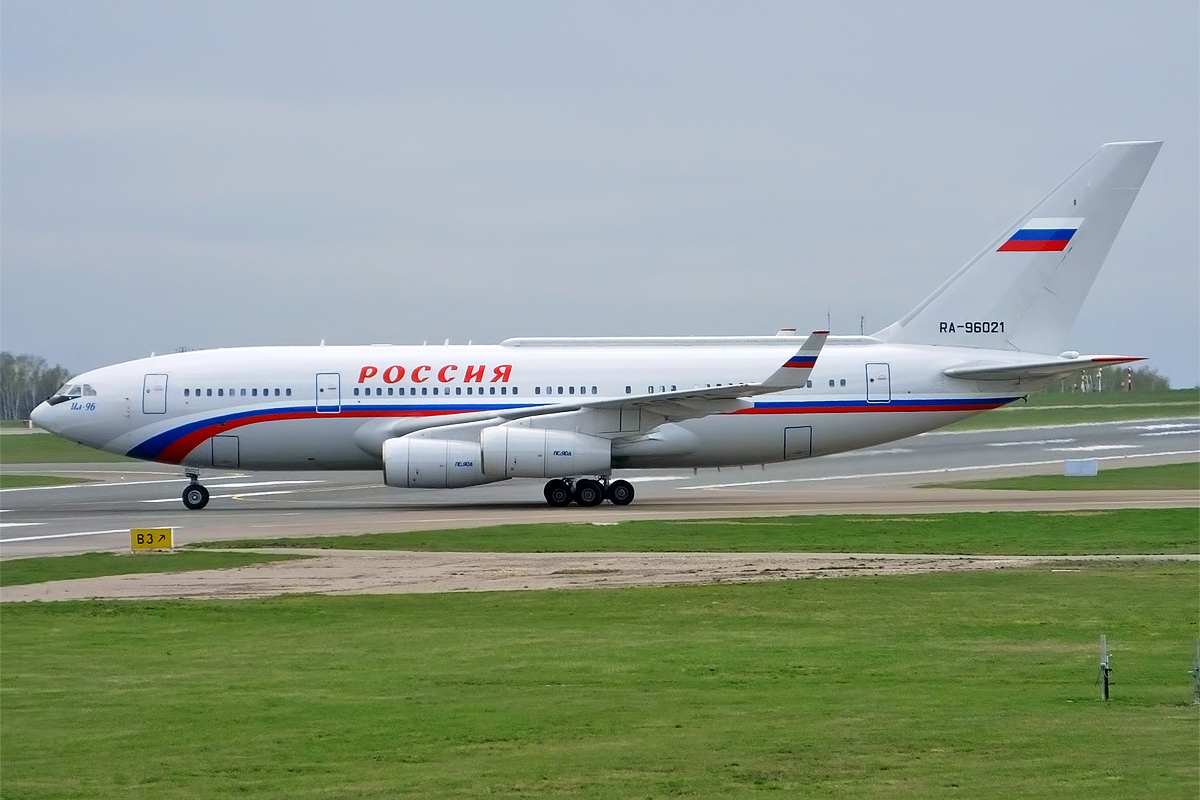 Russian Air Force, RA-96021, Ilyushin IL-96-300PU